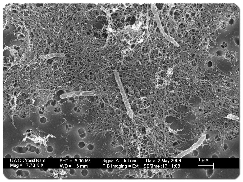 A colony of Desulforudis audaxviator, discovered in the Mponeng gold mine near Johannesburg, South Africa. See article Without The Sun for details